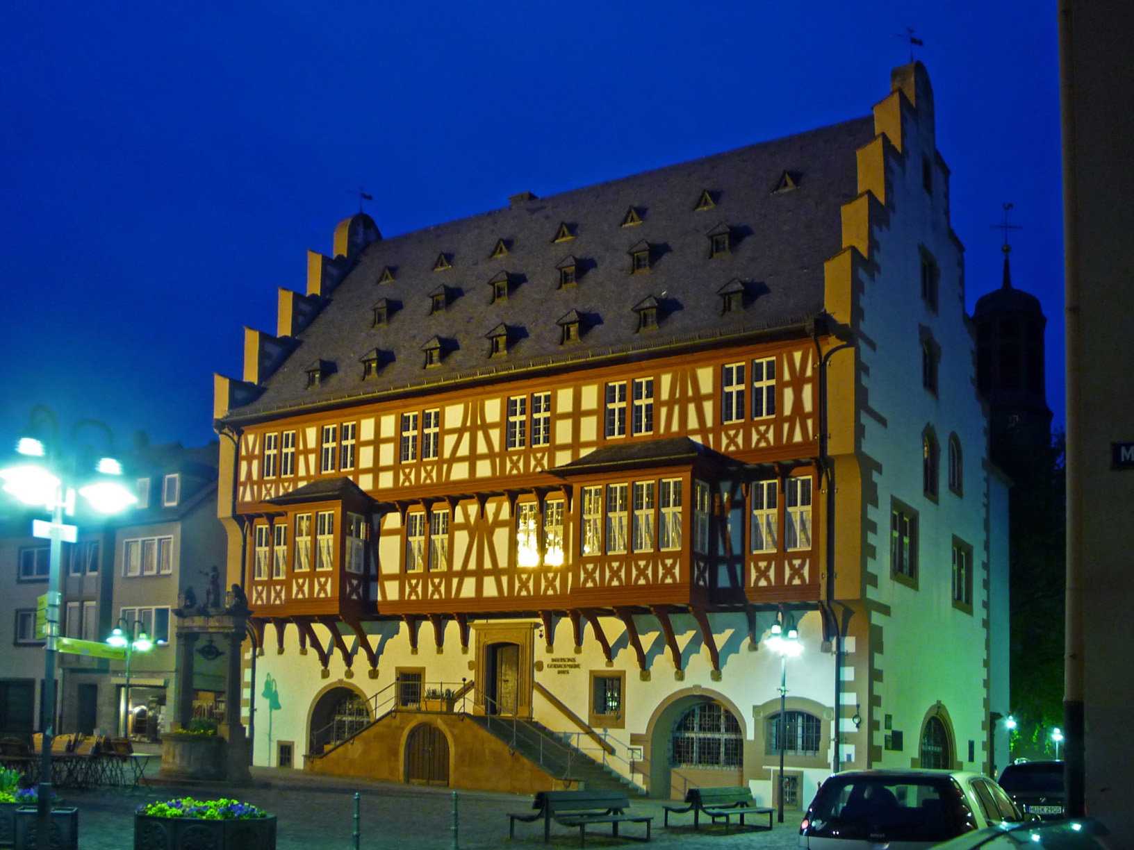 German House of Goldsmiths (old town hall of Hanau)